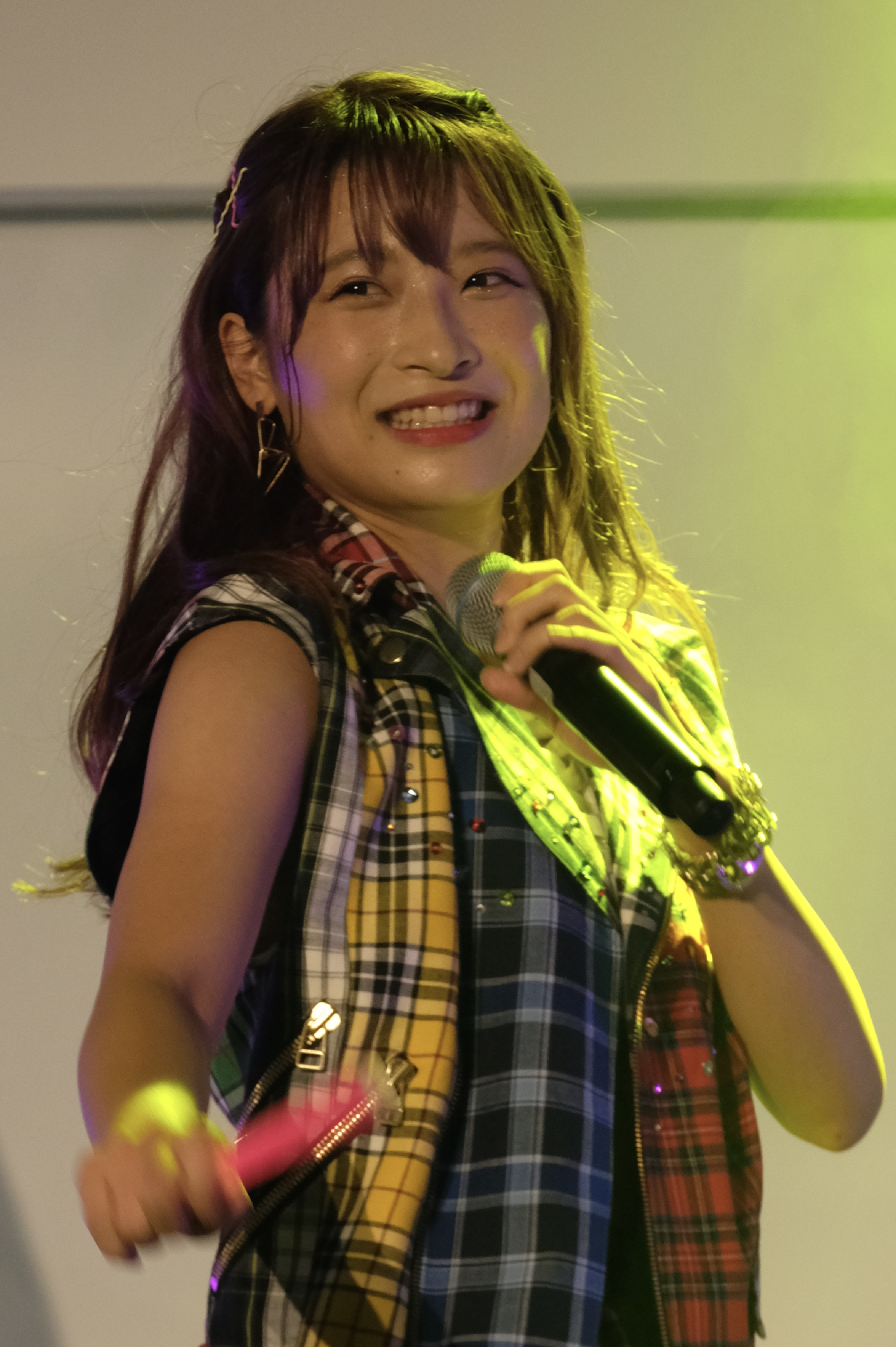 The 2nd ASEAN-Japan TV Festival Public Event